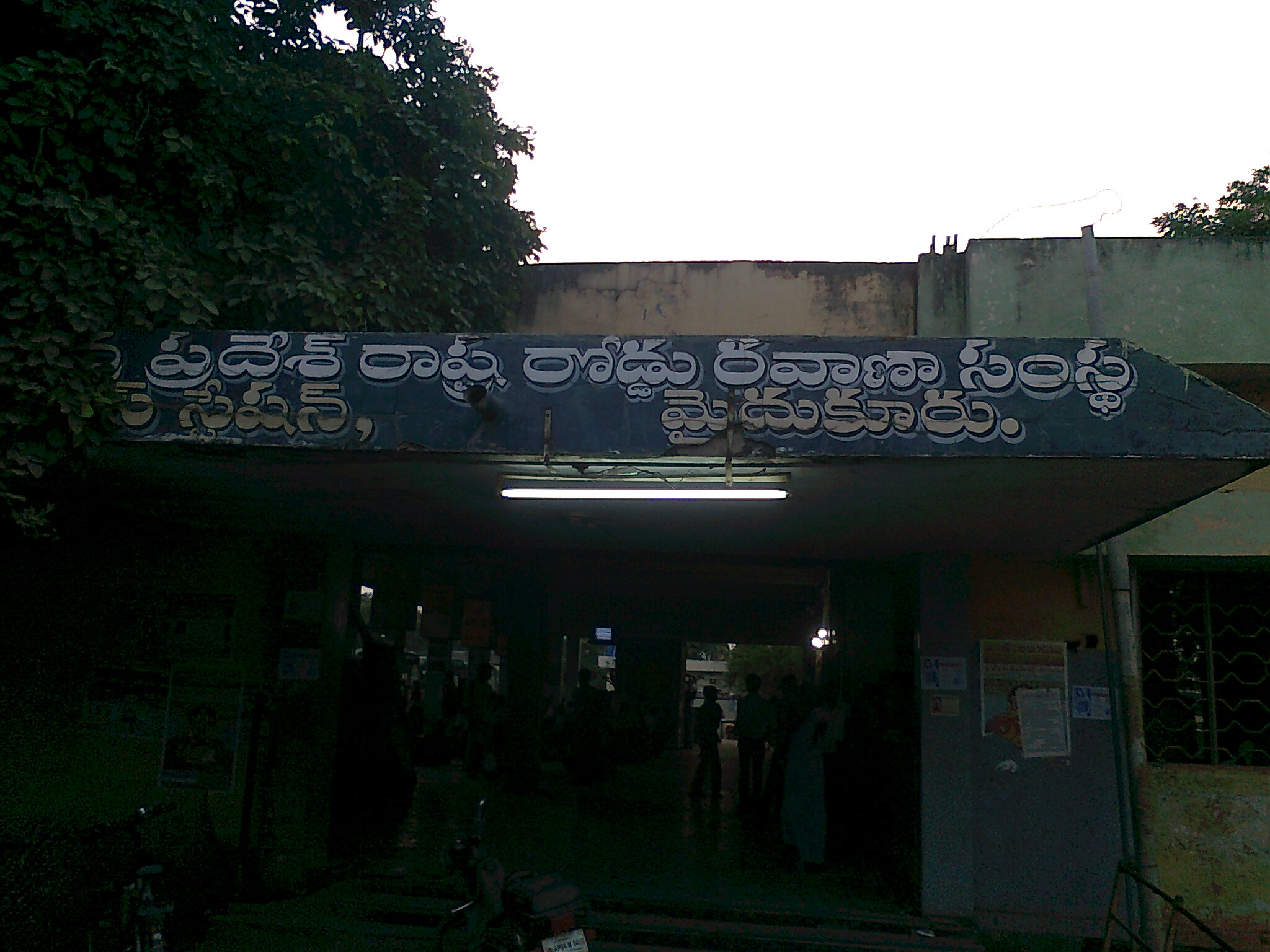 own work